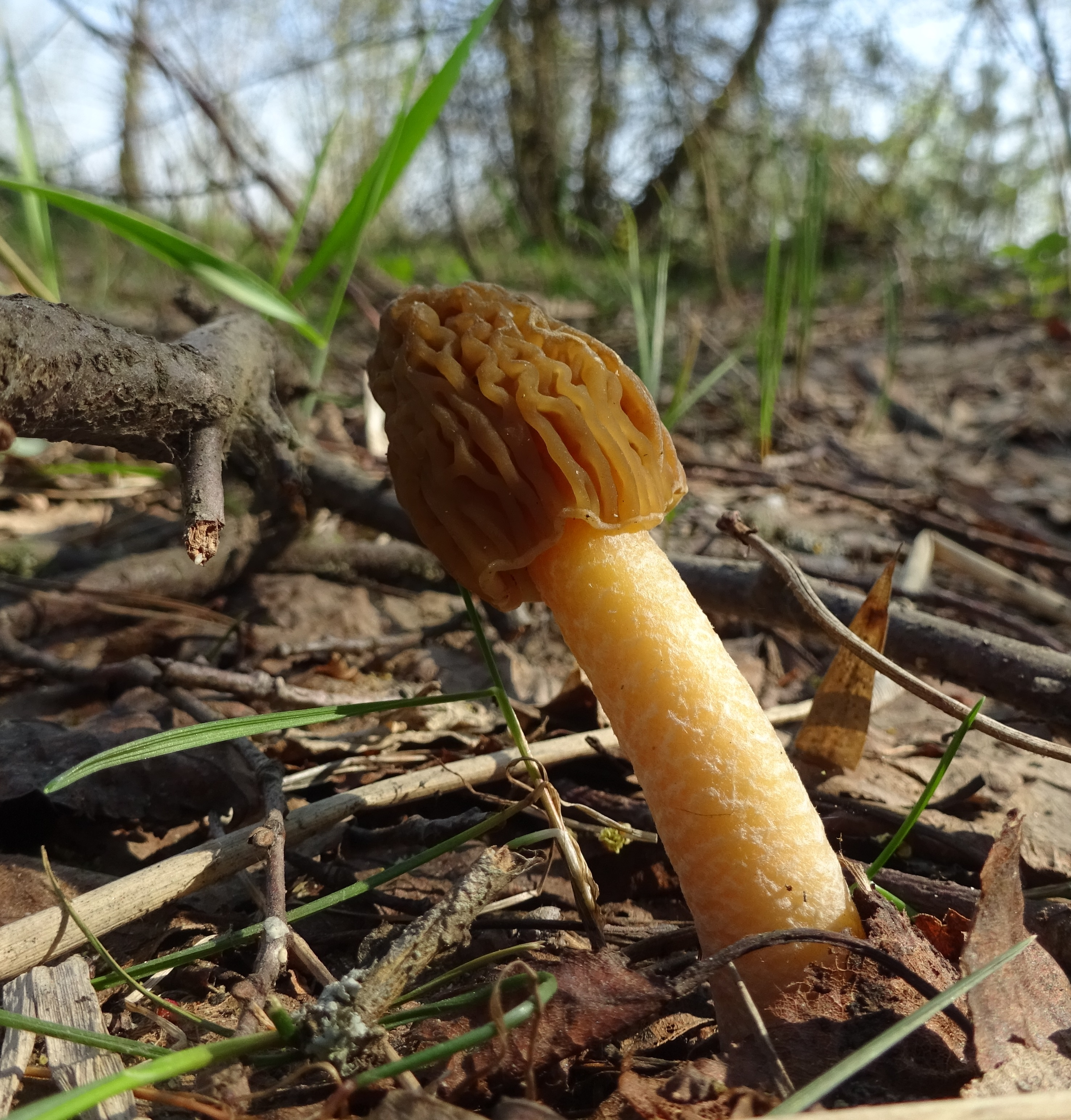 Гриб зморшкова шапинка (Verpa bohemica), Україна, Київська обл. 04.2018.